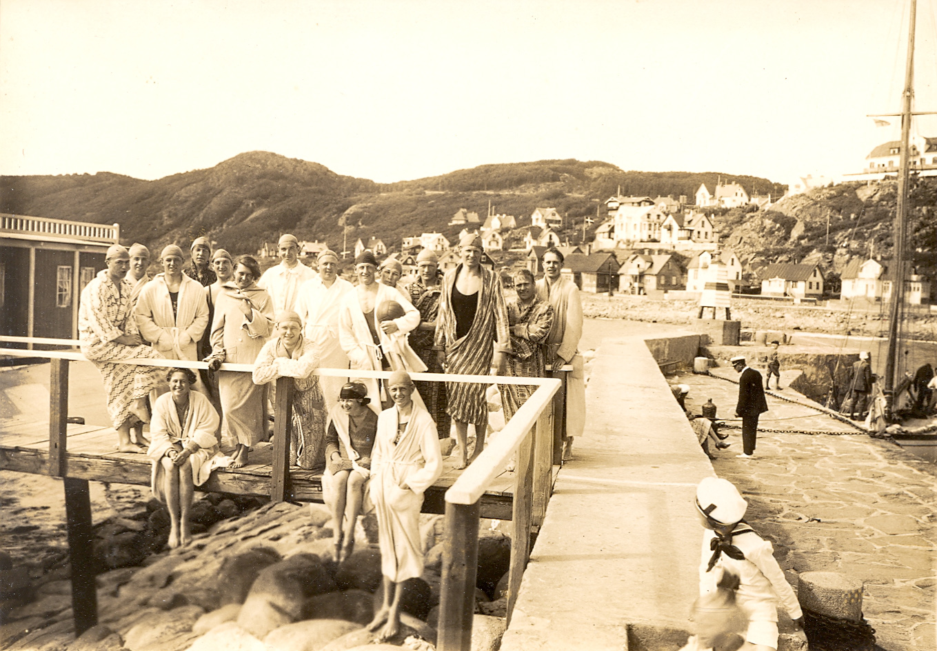 Bathing life in Mölle, Sweden, in the 1920ies. Cold bathing house to the left.